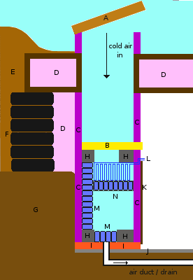 Schematic of Michael Reynolds' thermal mass refrigerator. The schematic was made based on a schematic found in the book "Earthship volume 3" by Michael Reynolds. A: insulated, gravity-operated skylight B: insulated, slide-out damper C: 4 inch rigid urethane insulation D: batts insulation E: earth F: compacted tire wall G: earth cliff H: 8 inch concrete mass I: 4 inch support blocking J: concrete floor slab K: 6 inch insulated door L: DC electric powered cooling coils (condensor coils) M: 6,5 inch liquid filled cans N: 5 inch mass divider (5 inch liquid filled cans wrapped in sheet metal) Note that above N (and under H) is the freezer compartment, the refrigerator compartment is below N. the liquid in the cans is either cheap beer or water the damper is pulled out when it's colder outdoors as in the freezer/refrigerator, and closed when it's vice versa the air duct/drain goes to outside the house (not to inside the house). A branch off can be made however on this pipe (that leads to the outside) going to the fireplace. When the fire is lit, the fire then consumes air hence pulling through air from the bottom of the refrigerator the compressor and the evaporator coils (the parts of the refrigeration unit that become hot) can be placed inside the house (not inside the refrigerator, freezer or above it); note that these parts are not shown in the schematic